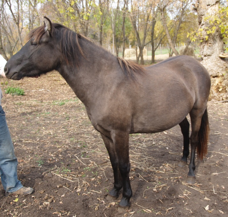 Lac La Croix Indian Pony mare - Agawate (Ojibway for - shadow)